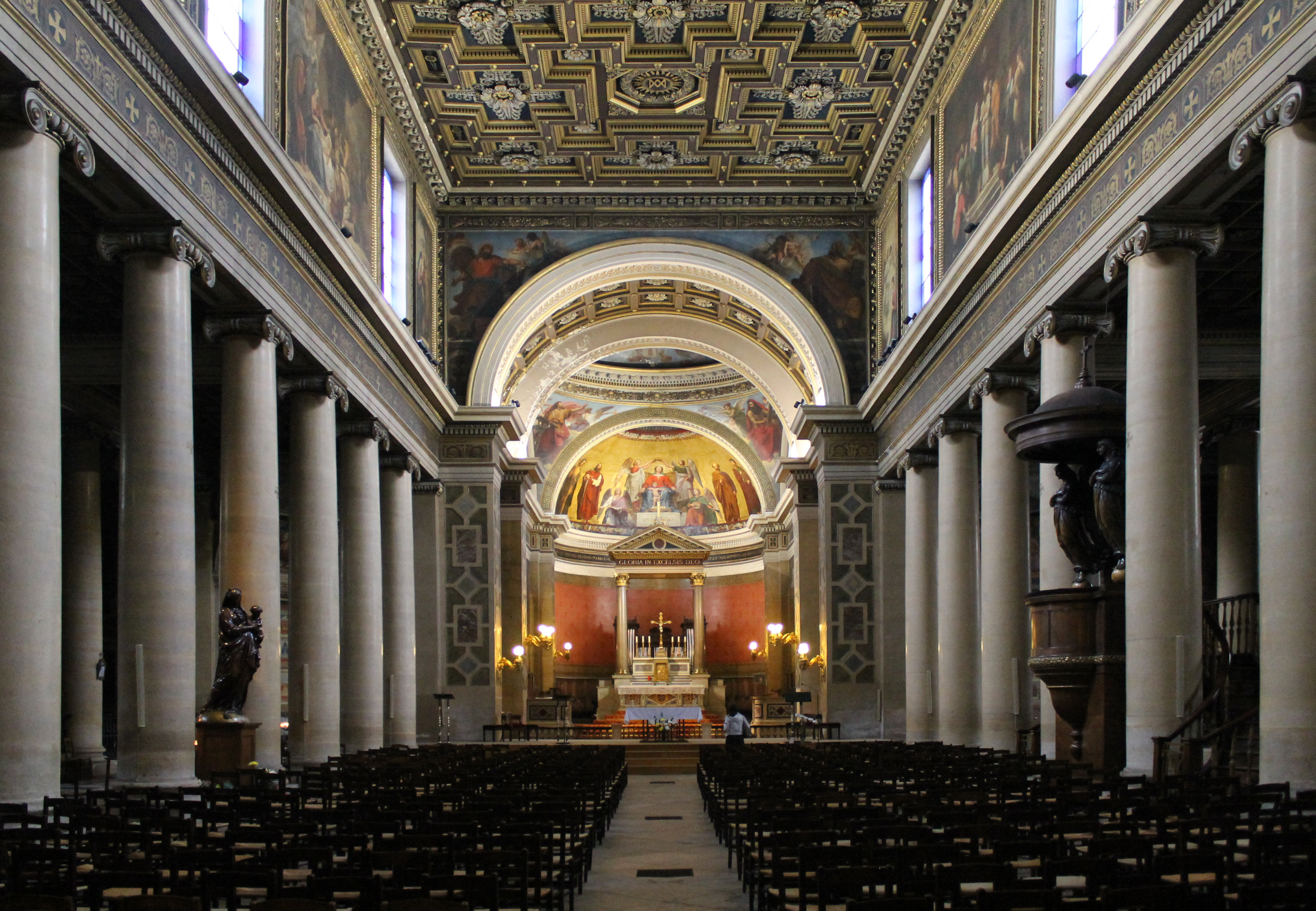 Interior of Église Notre-Dame-de-Lorette, Paris, France.